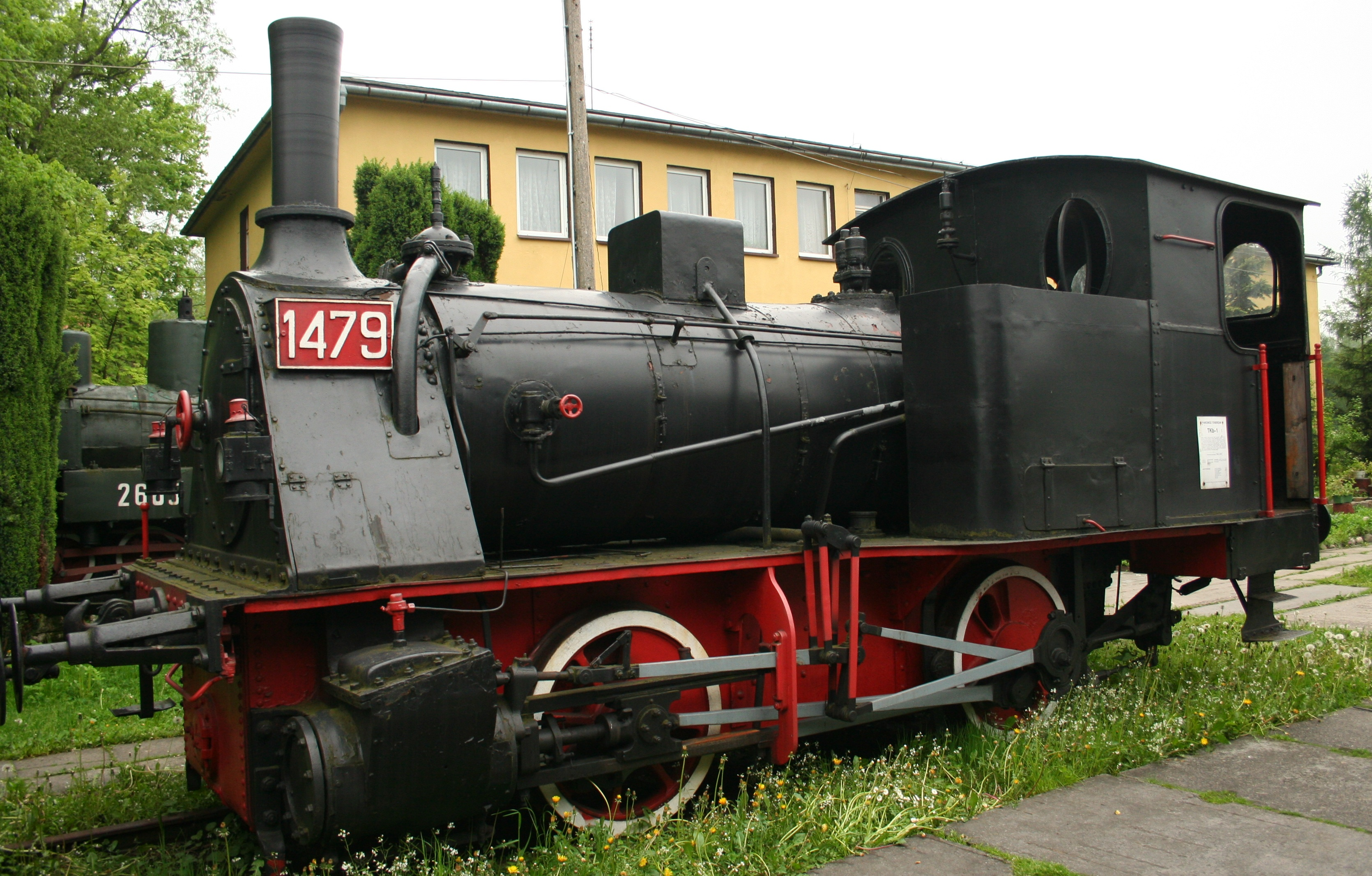 Locomotive TKb 1479 (built by BMAG (Schwartzkopff), Berlin, 1877, factory nr. 915). The railway museum in Chabówka, Poland